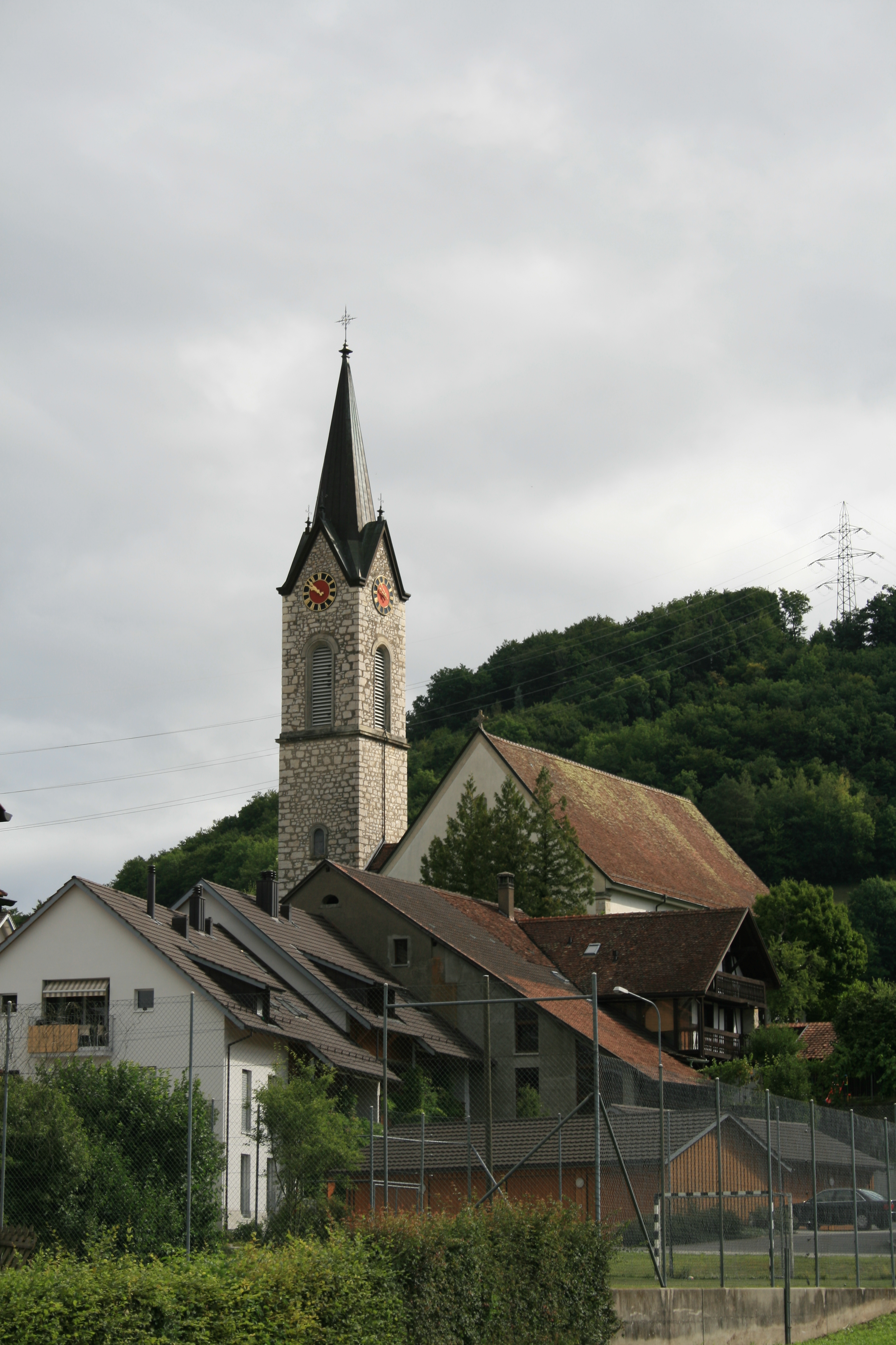 Rom.-cath. Church, Unterendingen AG, Switzerland